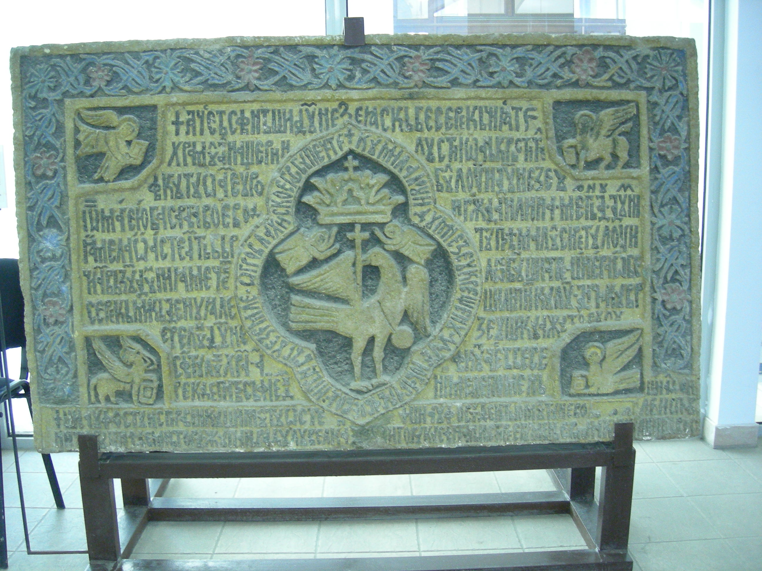 Inscription from Măxineni Church. Măxineni, Brăila County, 17th century. Museum of Romanian History in Bucharest, Romania.